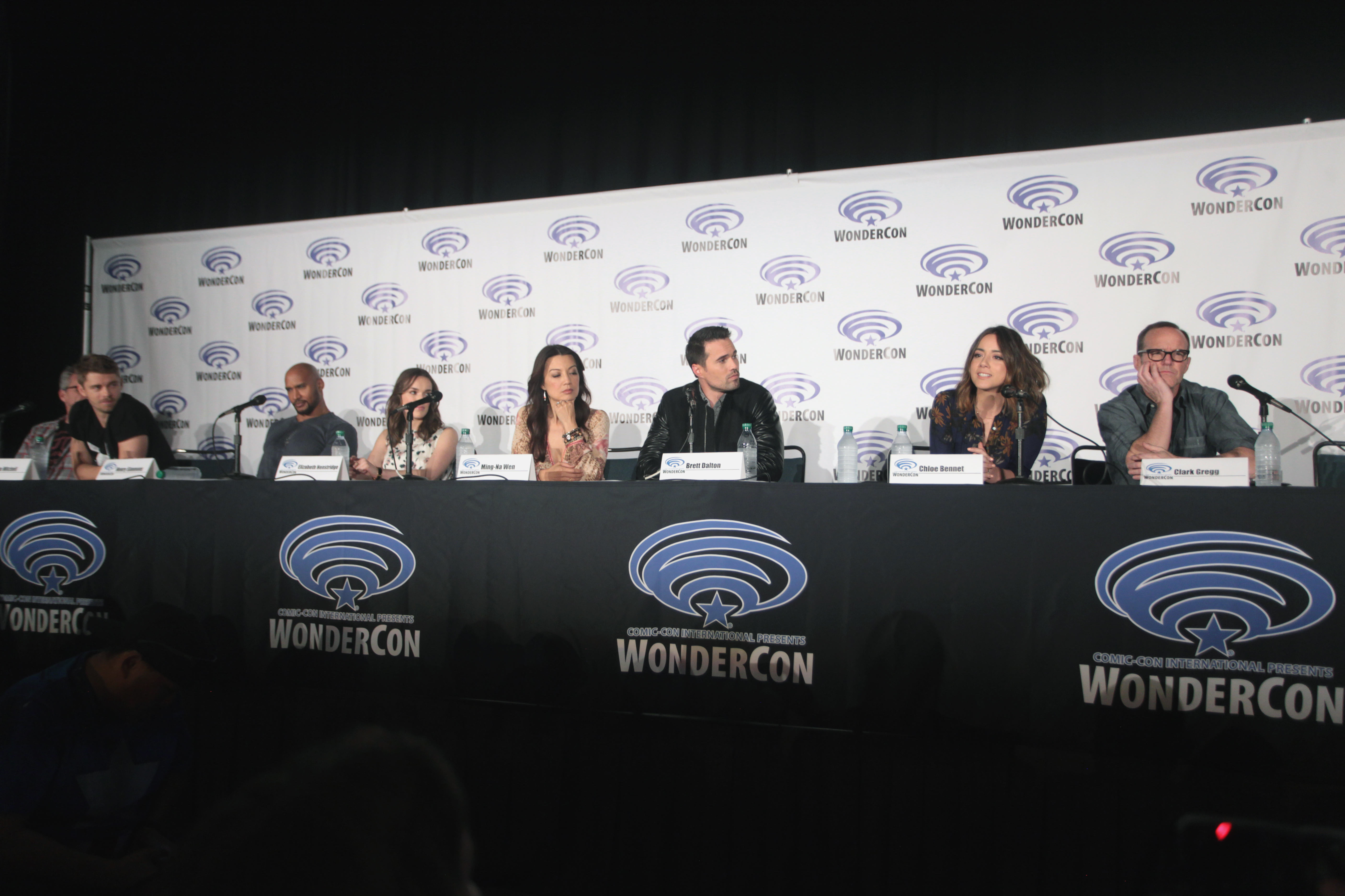 Jeffrey Bell, Luke Mitchell, Henry Simmons, Elizabeth Henstridge, Ming-Na Wen, Brett Dalton, Chloe Bennet and Clark Gregg speaking at the 2016 WonderCon, for "Marvel's Agents of S.H.I.E.L.D.", at the Los Angeles Convention Center in Los Angeles, California.